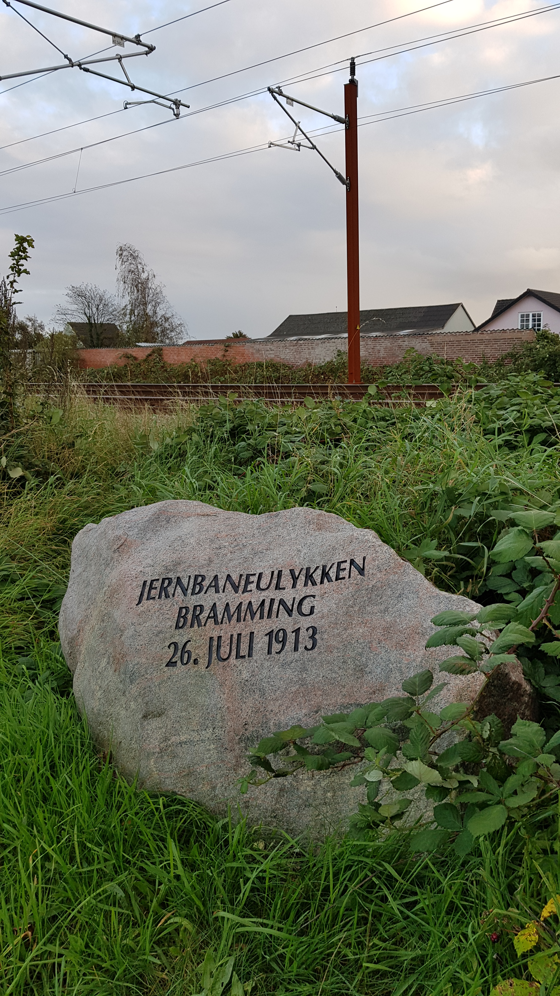 Memorial stone of the Bramminge railroad accident and area surrounding it. Facing East.